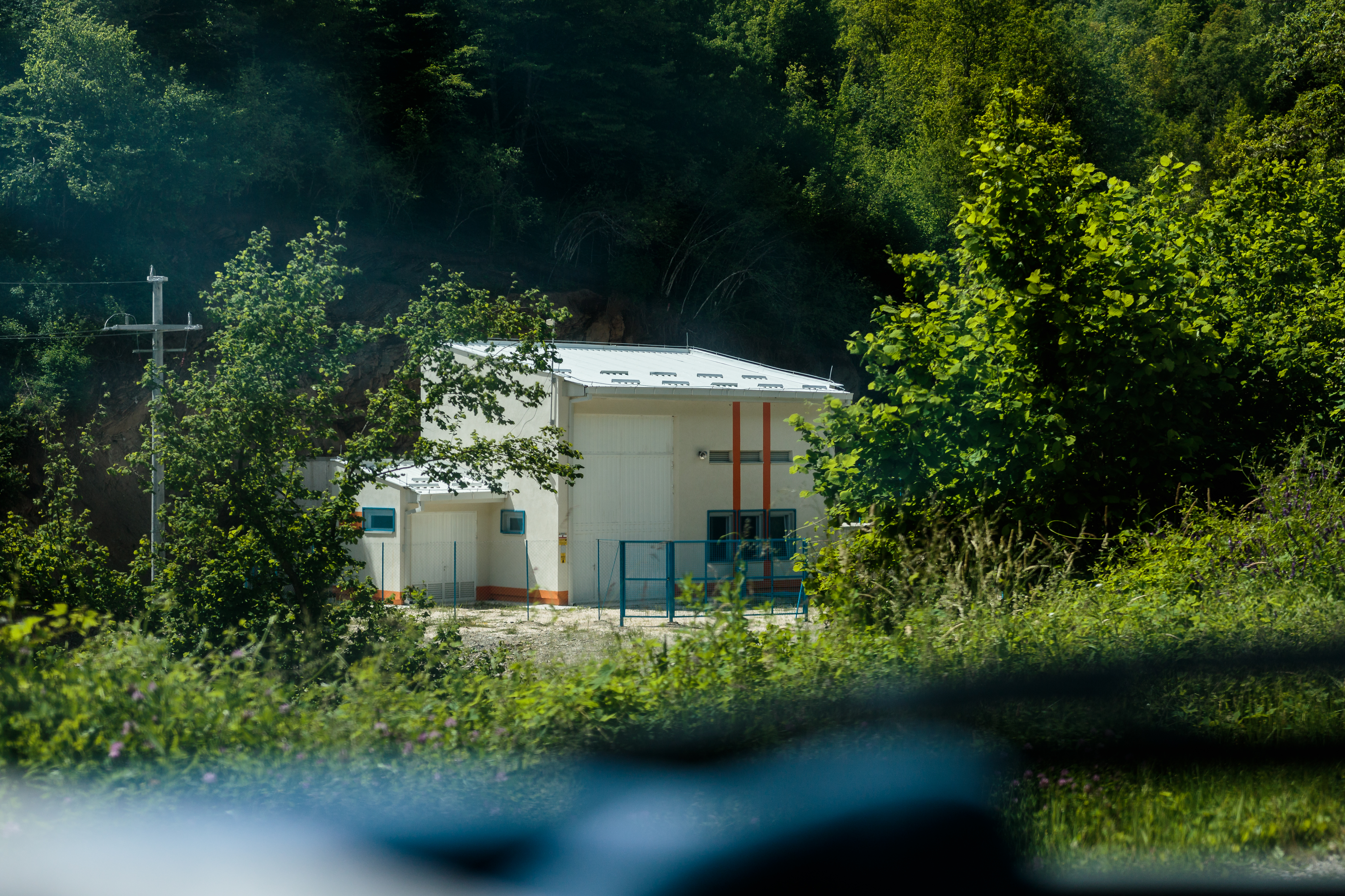 Small hydro power plant in the village Golemo Ilino